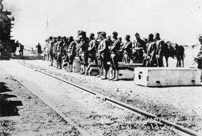 Men of the United States Army 13th Cavalry Regiment waiting for a train at Columbus, New Mexico, around March 10, 1916, to load the coffins of the soldiers killed in the raid.